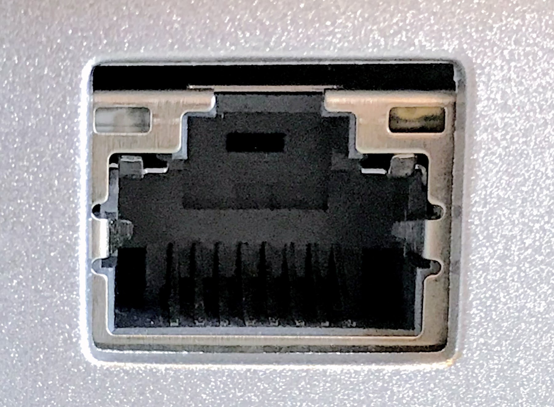 Ethernet port